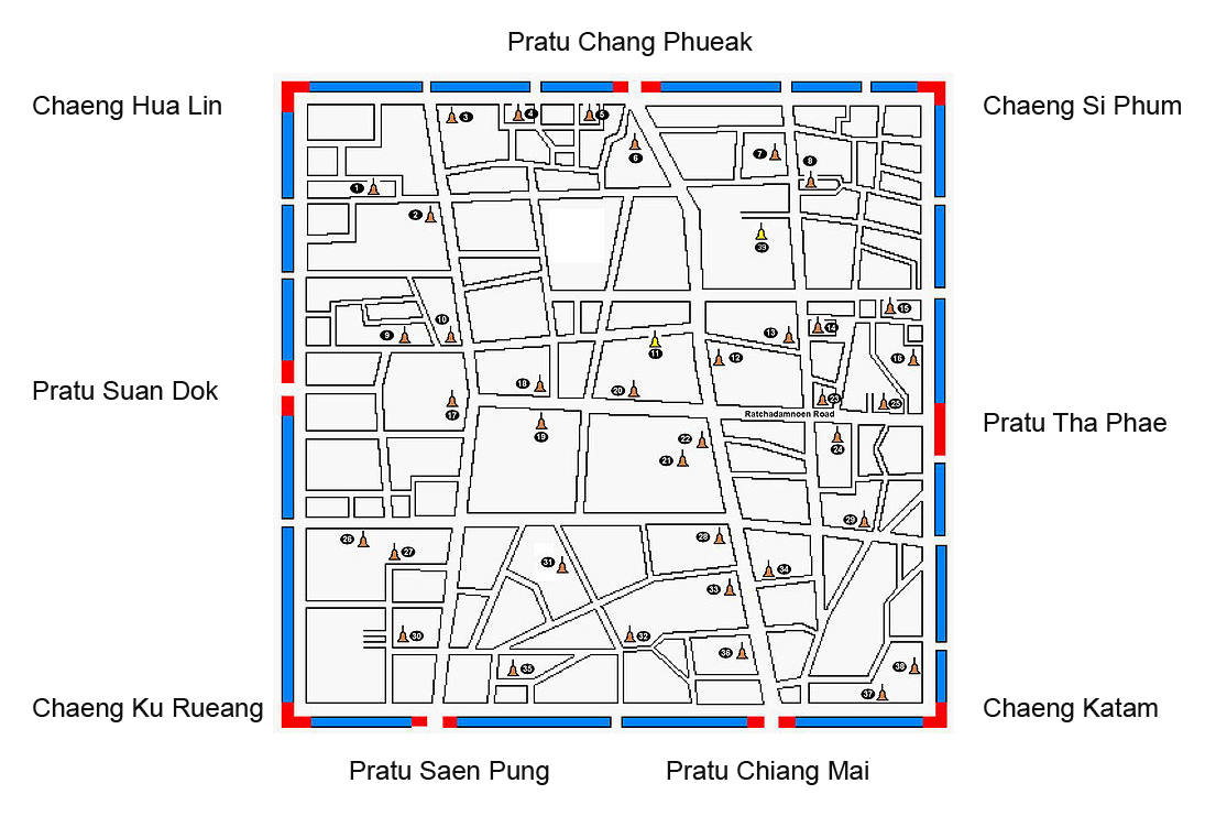 Map of the city moat and wall of Chian Mai with the position of all gates and forts on the corners. Original file File:MapTemplesChiangMai.jpg by FredTC